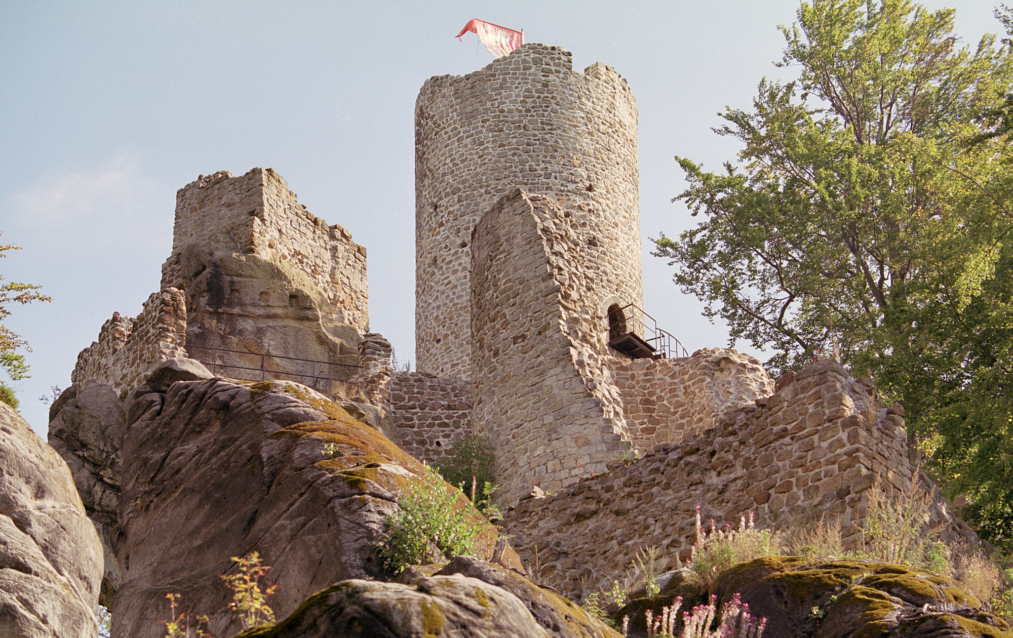 castle Frýdštejn in czech Republic own picture, taken in autumn 2004